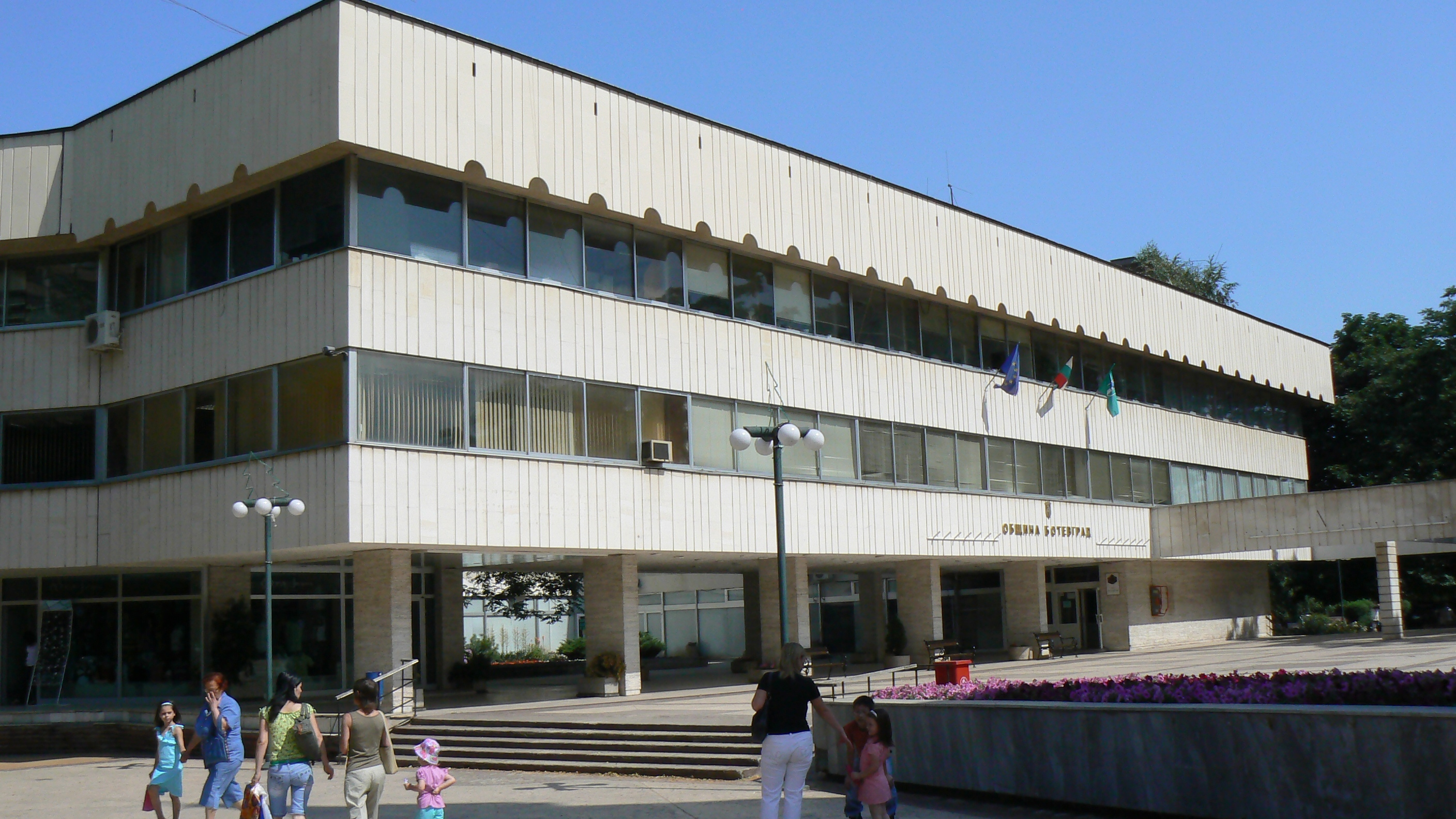 The building of Botevgrad municipality on square "Osvobojdenie" ("Liberation"). Botevgrad, Bulgaria